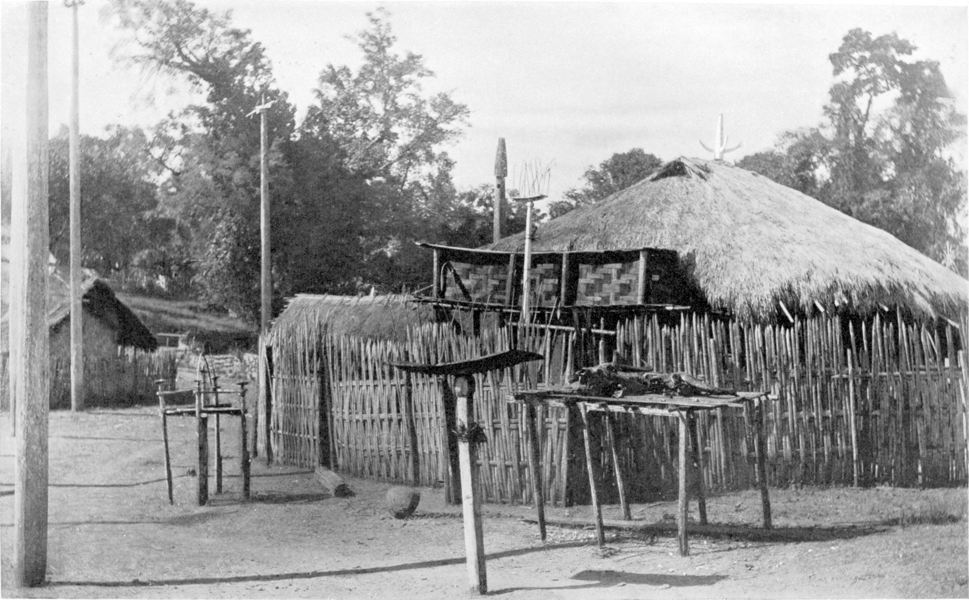 A Karen place of sacrifice.The rickety bamboo platform is the altar, with half a pig as an offering on it. The curved wooden slab in front is for offerings of flowers and fruit. When any member of a Red Karen family falls sick, a sacrifice is made to appease the wrath of a presumably aggrieved spirit. A fowl is killed and the bones are examined to find out the pleasure of the nat (the Burmese word for spirit). When this is settled the required animal is slaughtered and the head, ears, legs, and entrails are deposited in the nat-sin (shrine of the spirit).